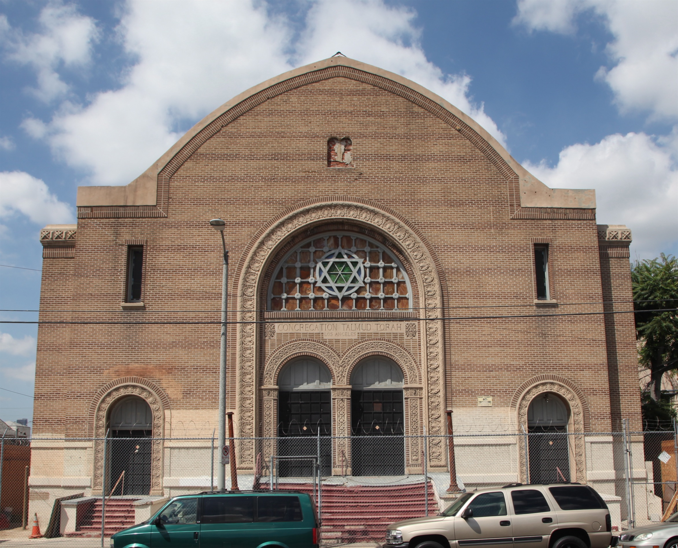 Congregation Talmud Torah - Breed Street Shul, 247 N. Breed St.